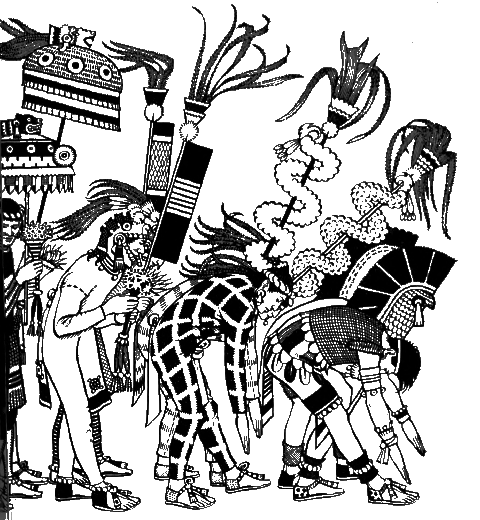 Aztec Caciques coming to the emperor